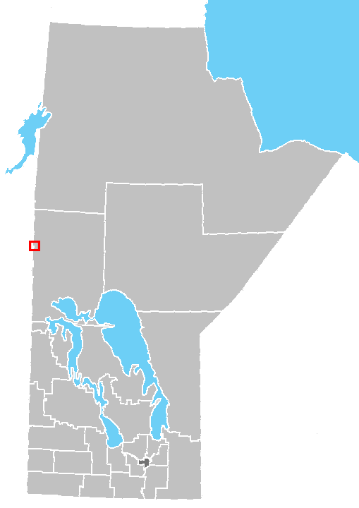 Location of Flin Flon, Manitoba